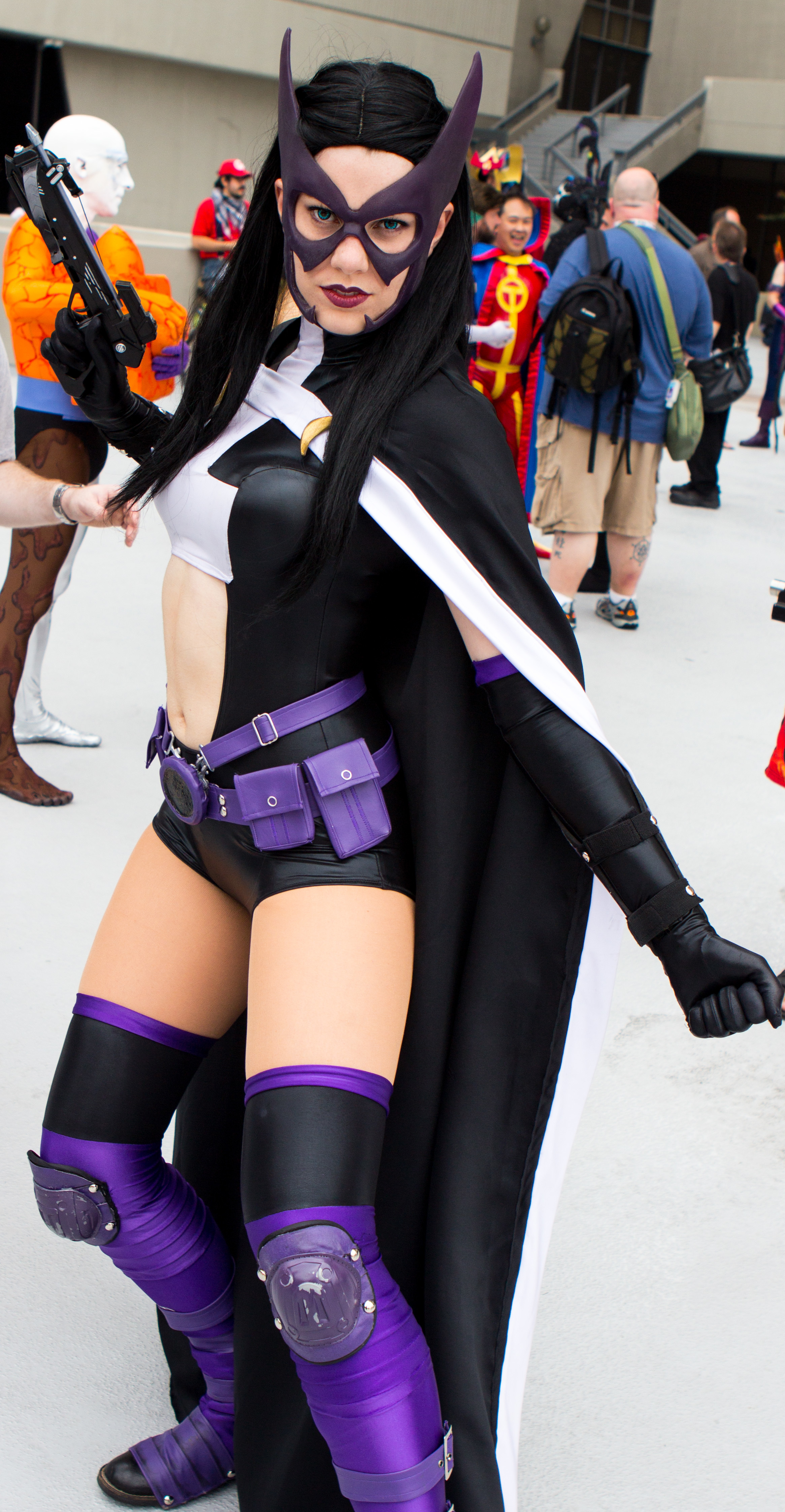 Gillian Owen, aka GillyKins, cosplaying as The Huntress (from DC Comics) at Dragon*Con 2013.